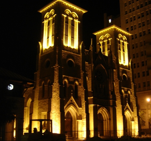 San Fernando Cathedral, San Antonio, Texas